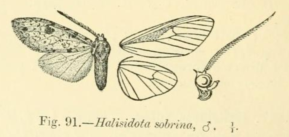 Drawing of Lophocampa modesta